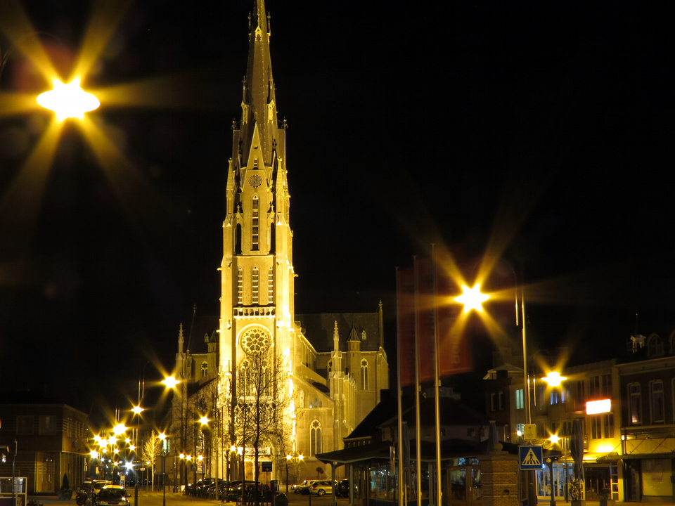 Sint Lambertus Church, Veghel, The Netherlands